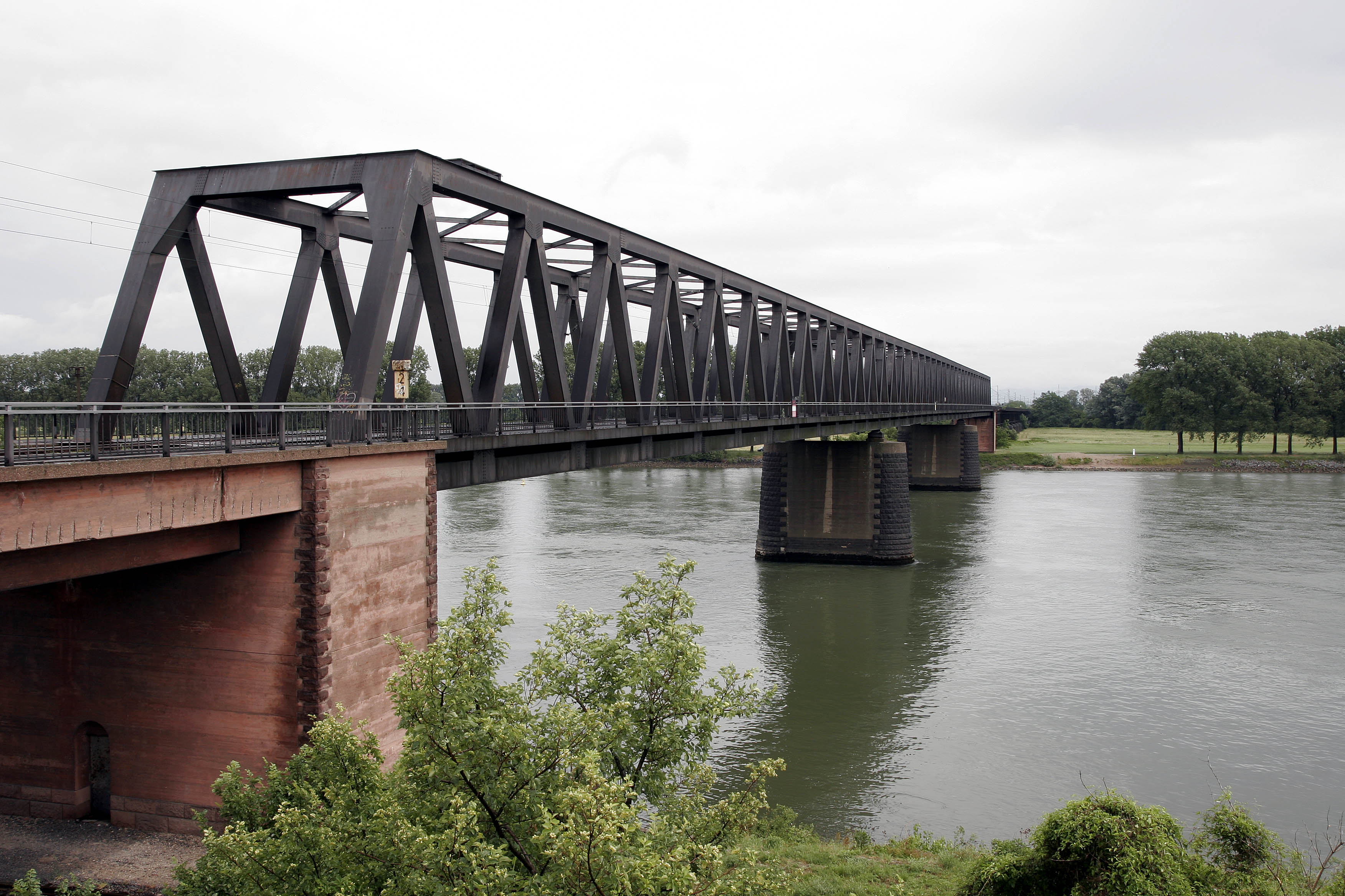 Railwaybridge over the Rhine river in Worms (Germany)